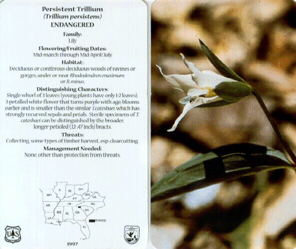 Photograph and description of Persistent Trillium. Source: U.S. Fish & Wildlife Service